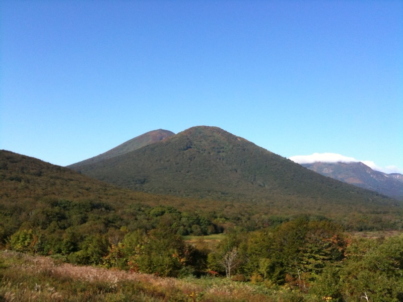 Hakkōda Mountains' Hinadake peak viewed from the ENE.